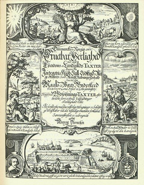 Title page of the book Danmarckis oc Norgis Fructbar Herlighed by Arent Berntsen (1656). Copper engraving.